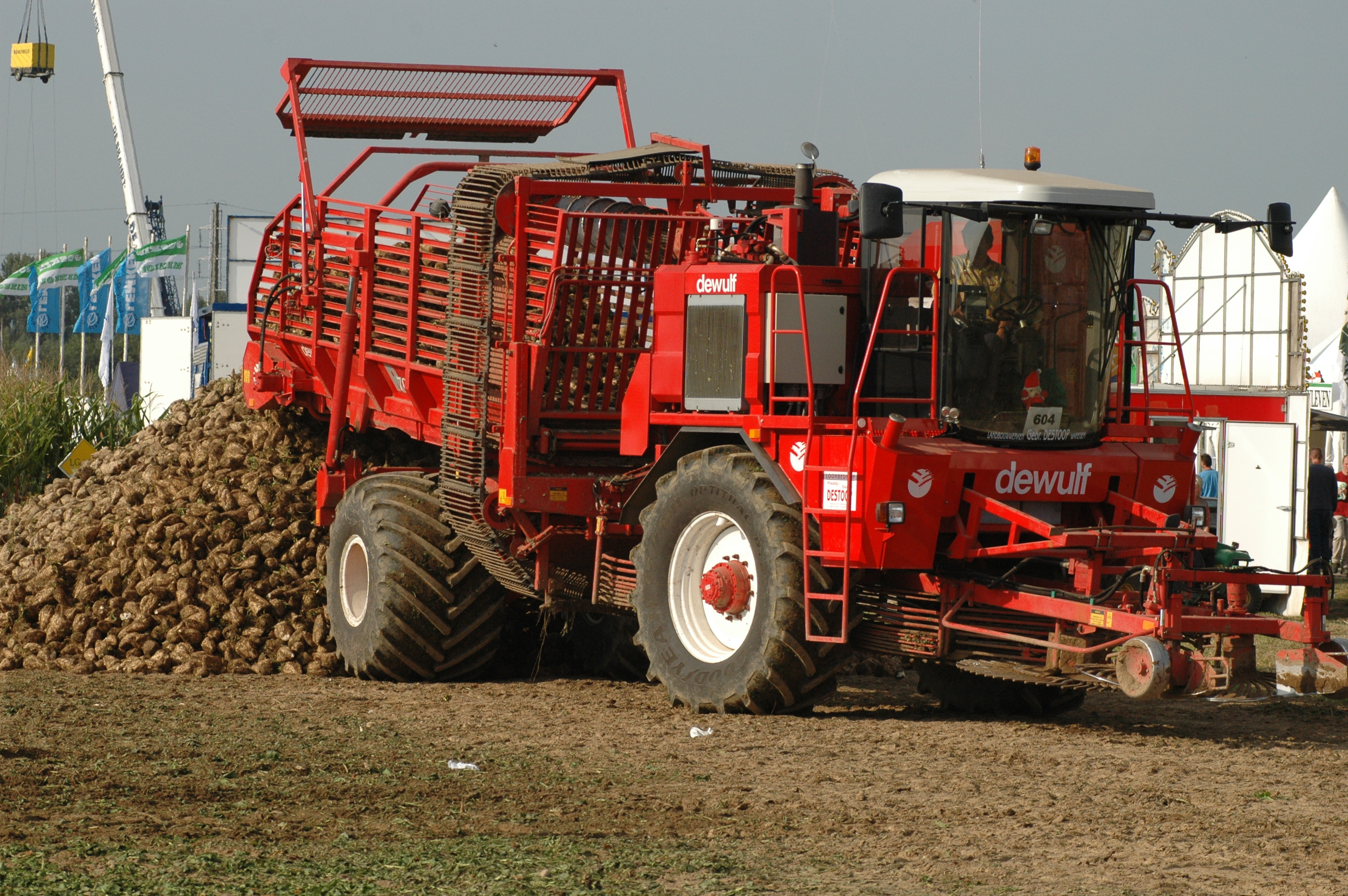 Dewulf R7050 self-propelled beetloader at Werktuigendagen 2005